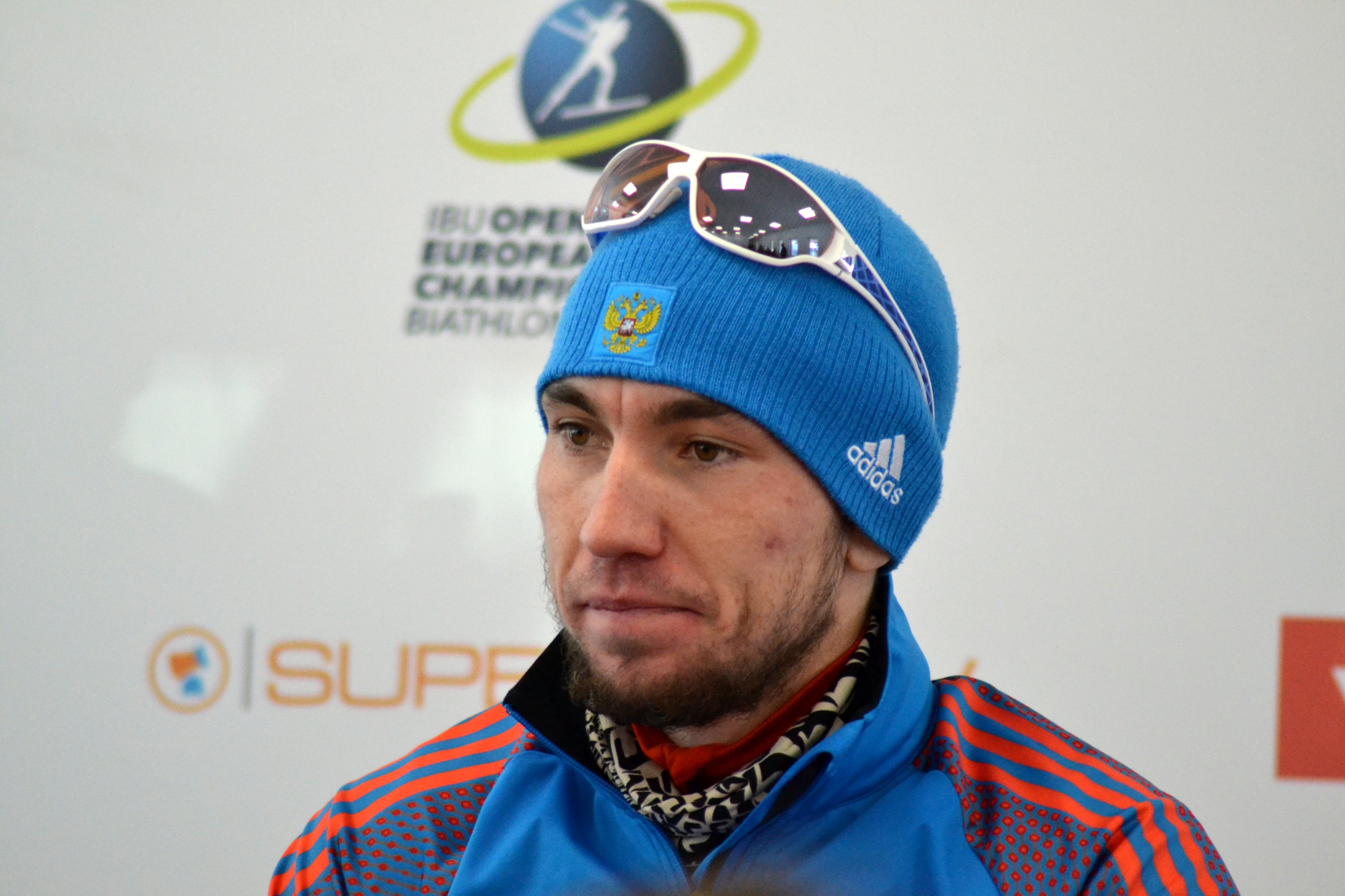 Open European Championships Biathlon 2017, Men's Pursuit race.